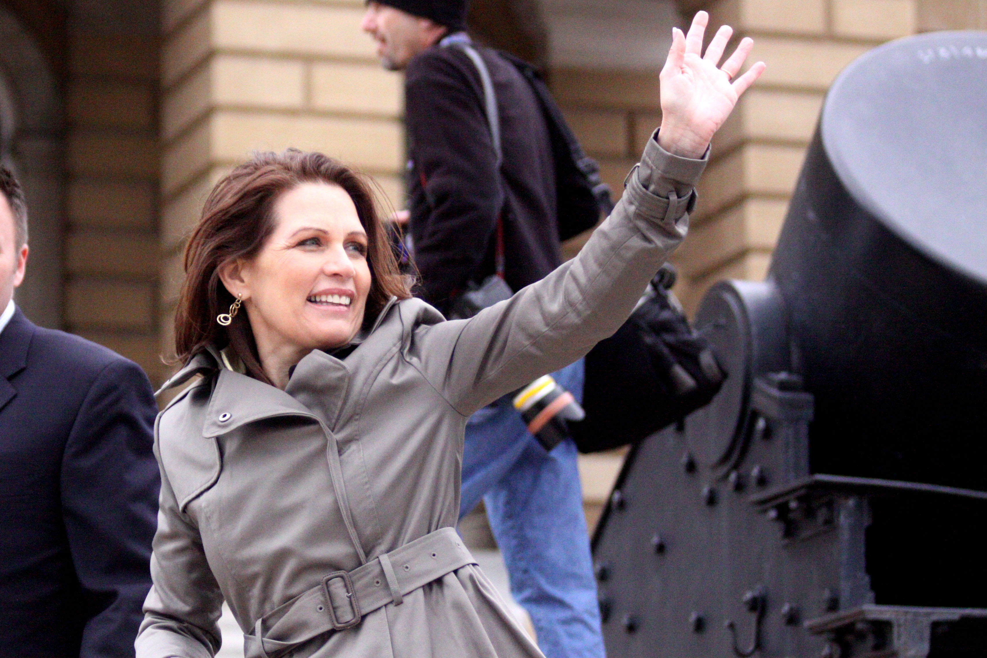 Michele Bachmann at the state capitol in Des Moines, Iowa, speaking to supporters.Crop of File:Michele Bachmann(by G Skidmore).jpg